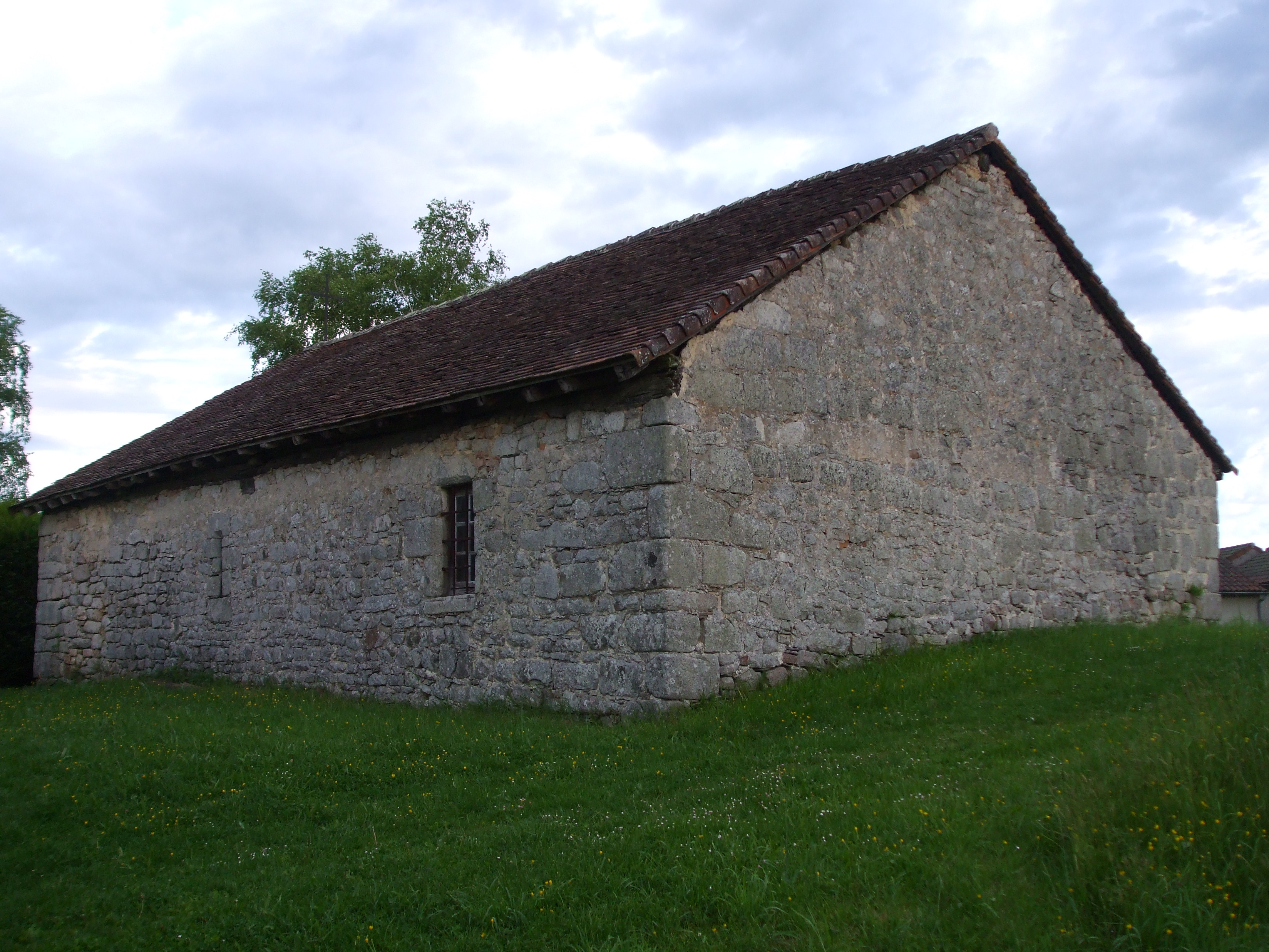 Chapel of Courbefy, Bussière-Galant (Haute-Vienne, France), XVIIth century